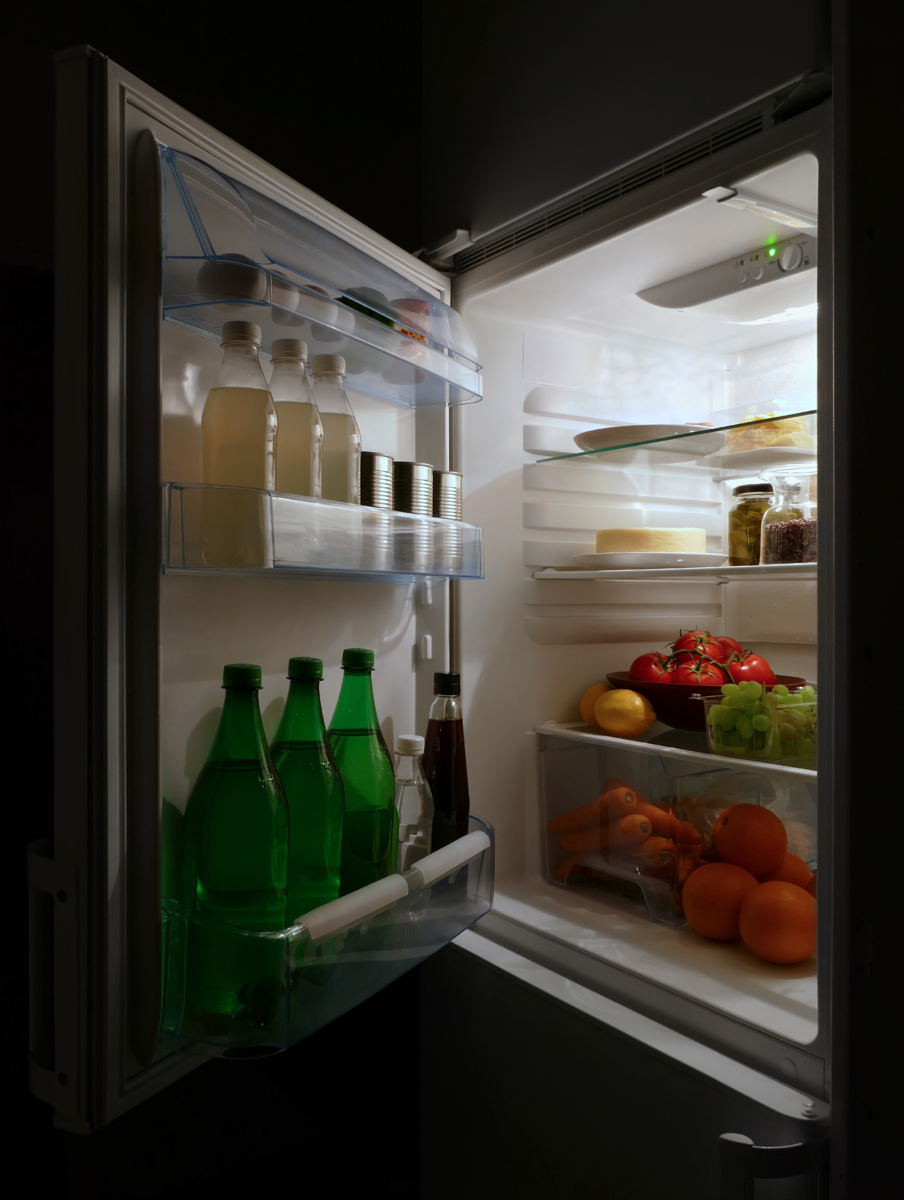 An open domestic refrigerator with food and drink at night.The photo is stacked for focus and light from five photos.The only light source used is the normal lamp in the fridge. The fridge in an Electrolux, model ERB34253W with a net volume of 188 litres (6.6 cu ft).The fridge contains four eggs, a green bell pepper, a jar of chili, three bottles of grapefruit soda, three cans of coconut milk, three bottles of pear cider, a bottle of carbonated water, a bottle of soy sauce, a plate of sliced ham, a container with butter, a round cheese, a jar of sliced, pickled cucumber, a pitcher with crushed, roasted cacao beans, two lemons, some tomatoes, a box with grapes, carrots, yellow onions and oranges. The fridge is at an undisclosed location in Lysekil Municipality, Sweden.